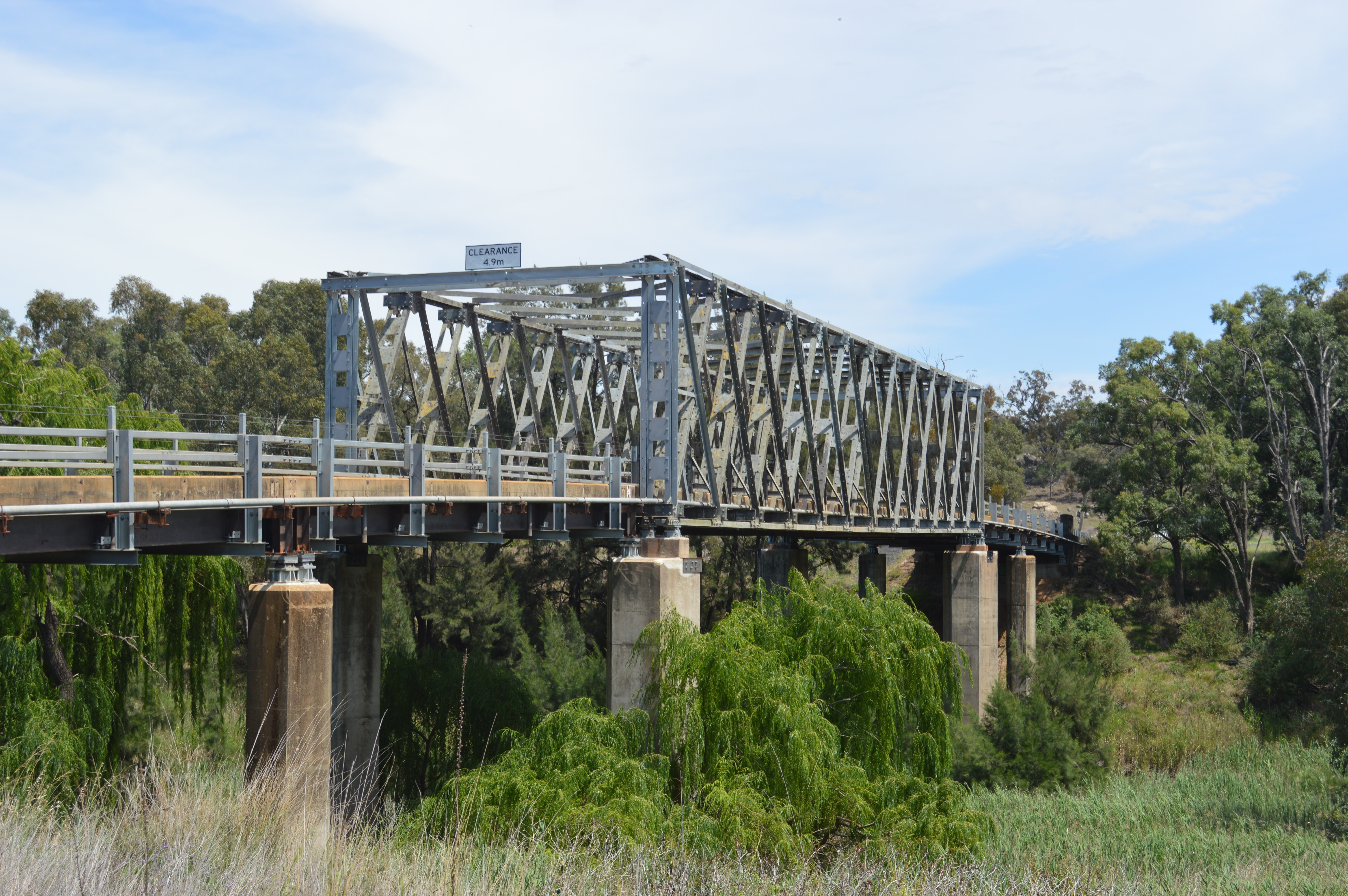 Mendooran Bridge over the Castlereagh River in Mendooran, New South Wales